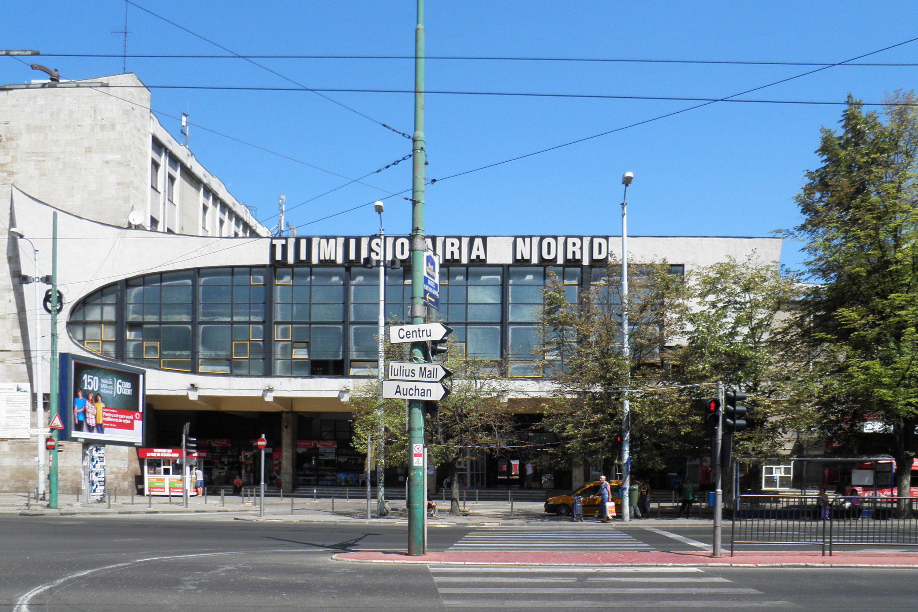 Timișoara North train station, Timișoara, Romania